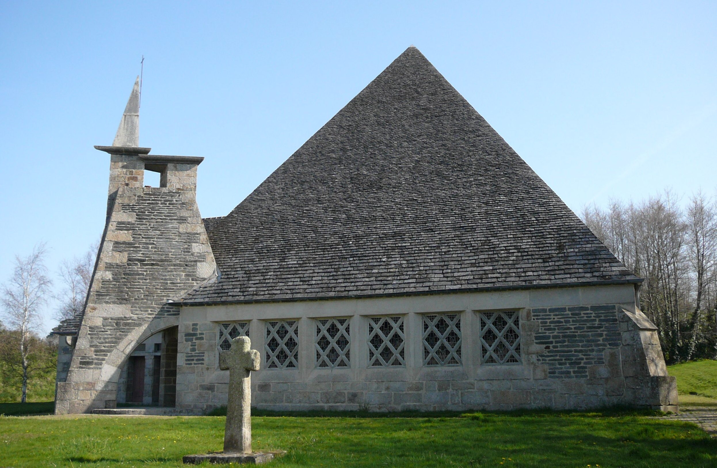 Chapel Sainte-Barbe at Relecq-Kerhuon near Brest